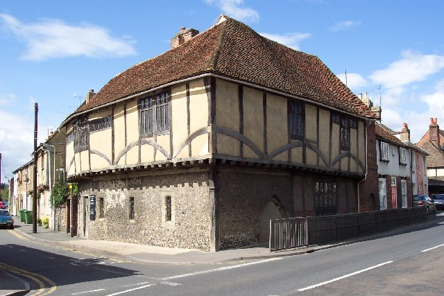 Maison Dieu, Ospringe, Kent. This medieval building formed part of a hospital, royal lodge and almshouse. It now houses Roman artefacts from nearby archaeological sites. It is now owned by English Heritage and is open on weekend afternoons only, March to October.